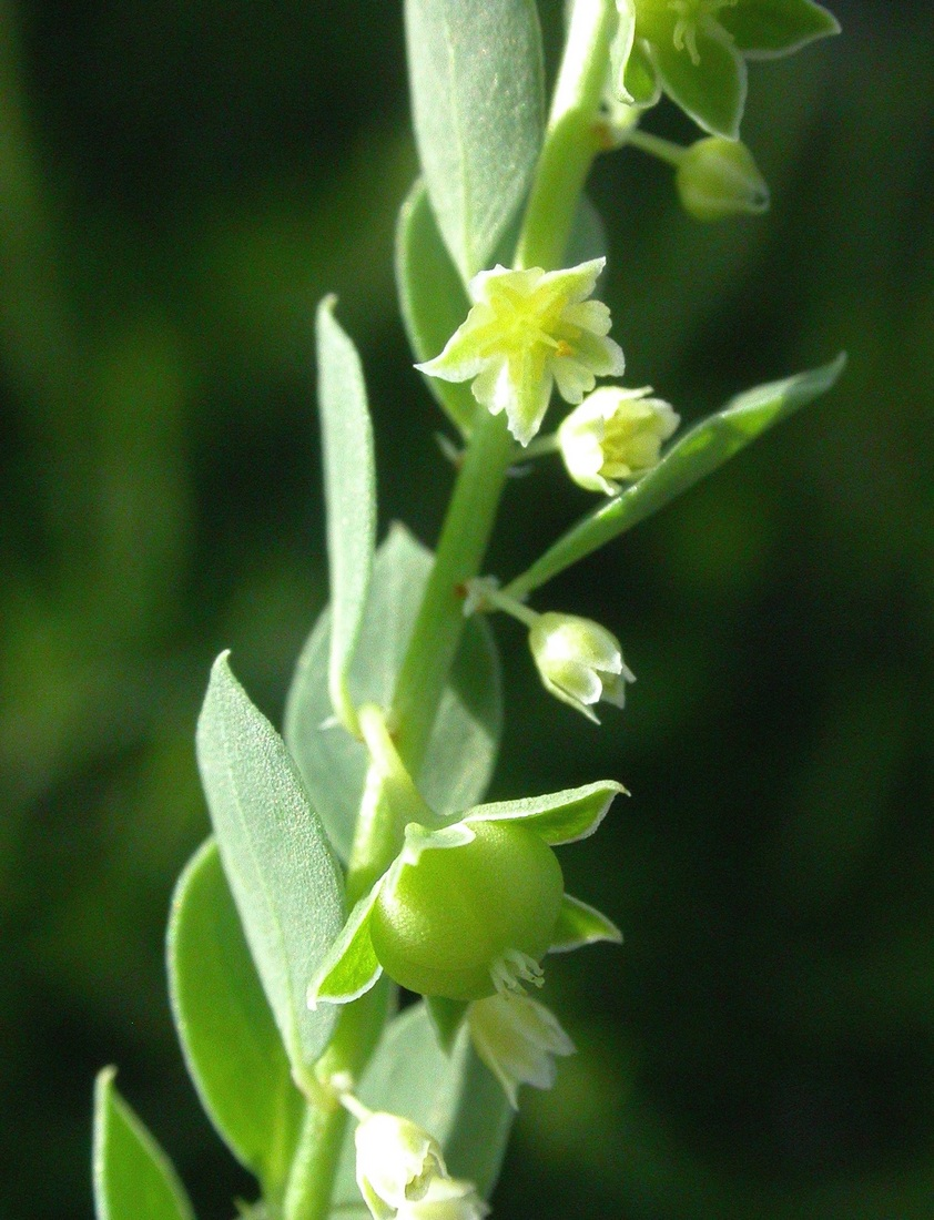 Flowering Andrachne telephioides, Monte Gargano, Italy